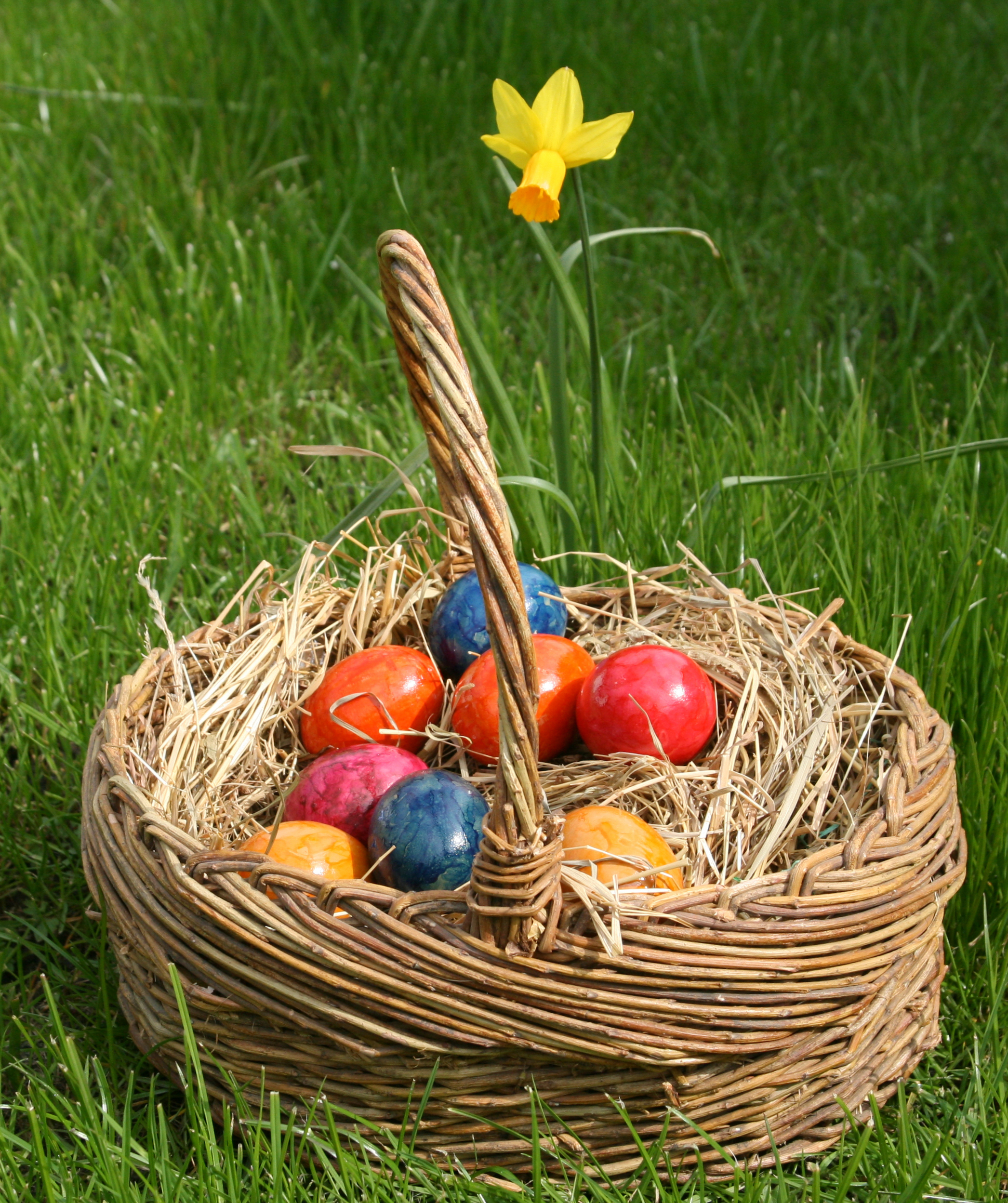 Easter eggs